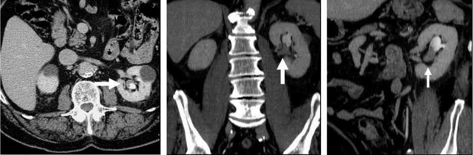 Renal parenchymal phase CT of transitional cell carcinoma. For context, see Computed tomography of the abdomen and pelvis.